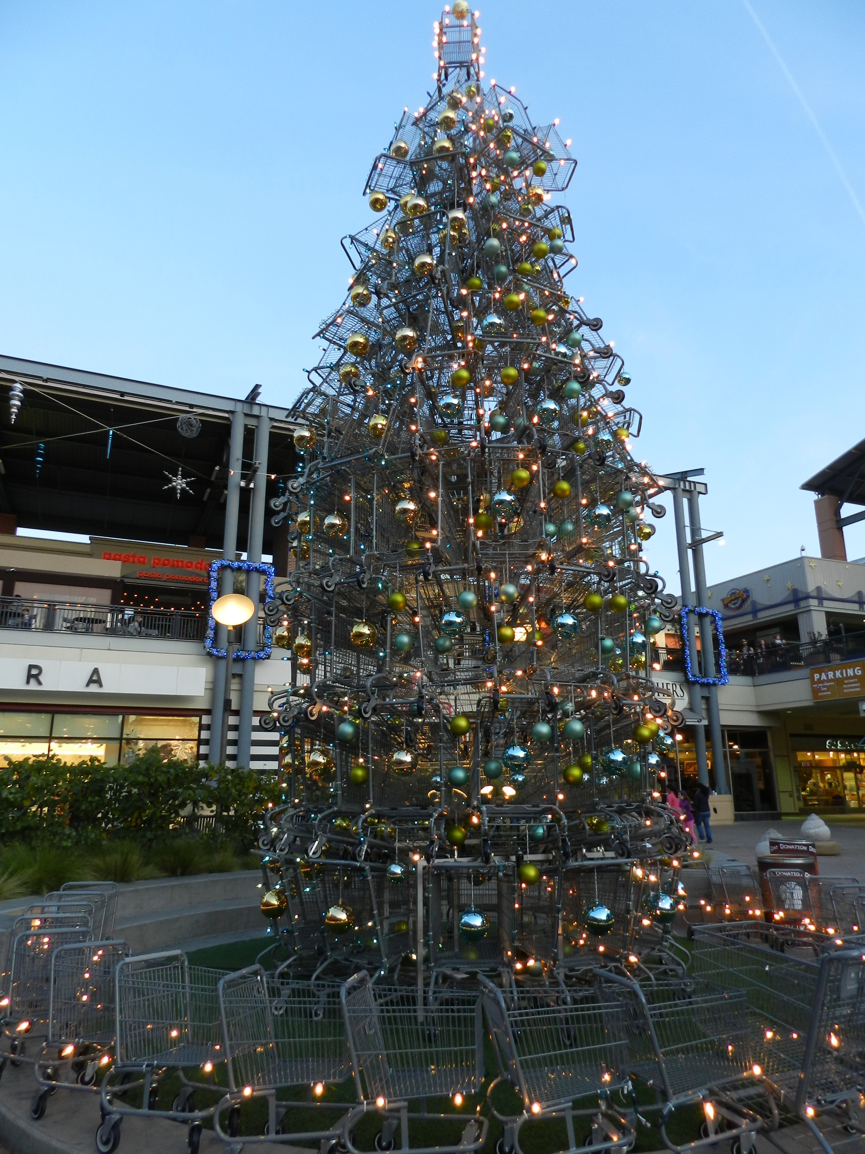 christmas tree made from shopping carts, Bay Street Shopping Mall, Emeryville california